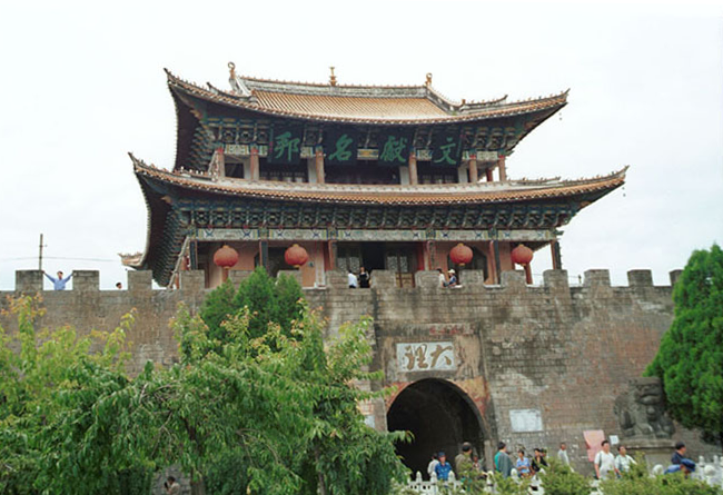 Old City gate, Dali, Yunnan province, China Author: Jian Qiu